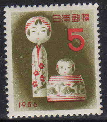 Japanese New year Stamp of 1956, with seal script